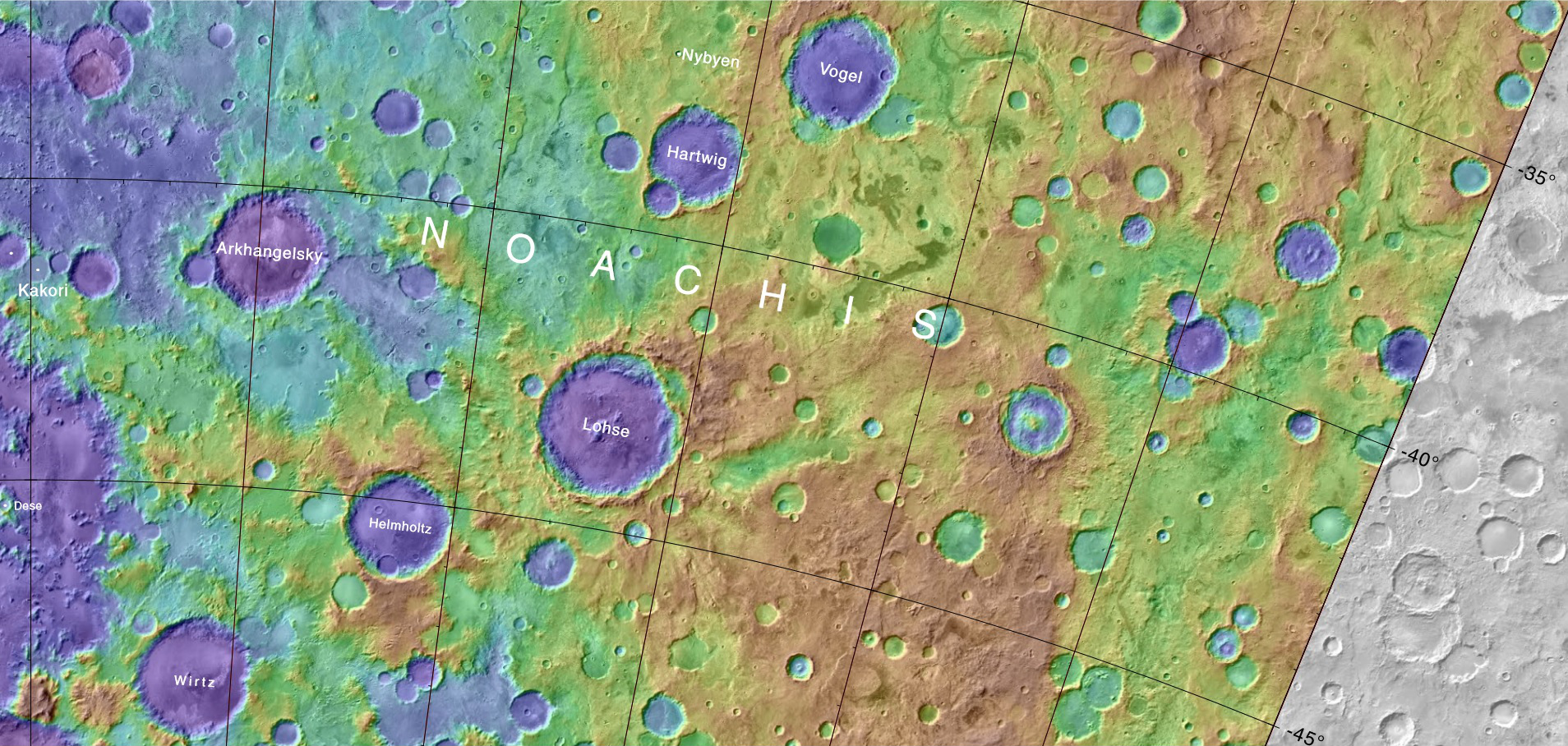 Topo map showing location of Arkhangelsky Crater and other nearby craters